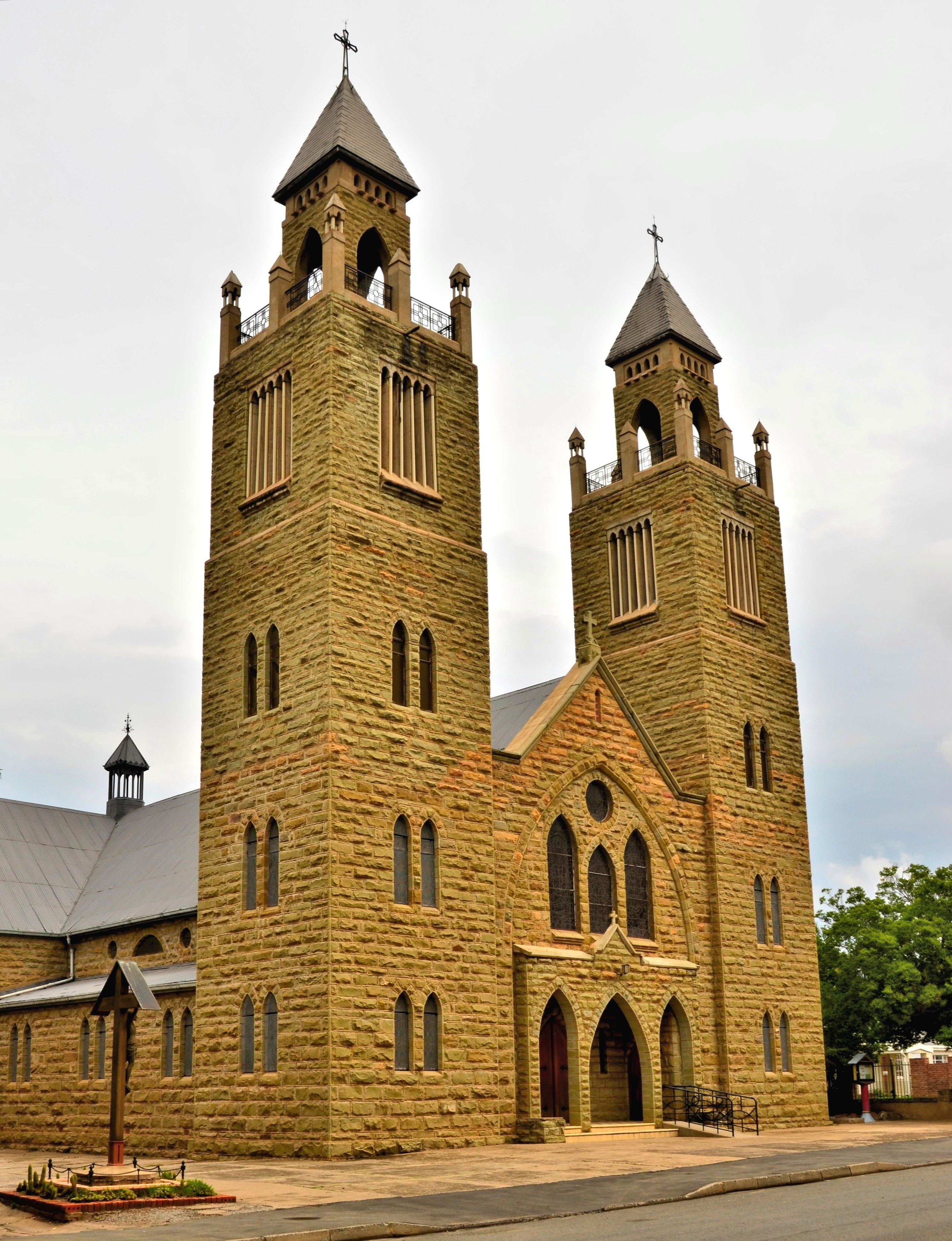 Sacred Heart Catholic Cathedral in Aliwal North, South Africa